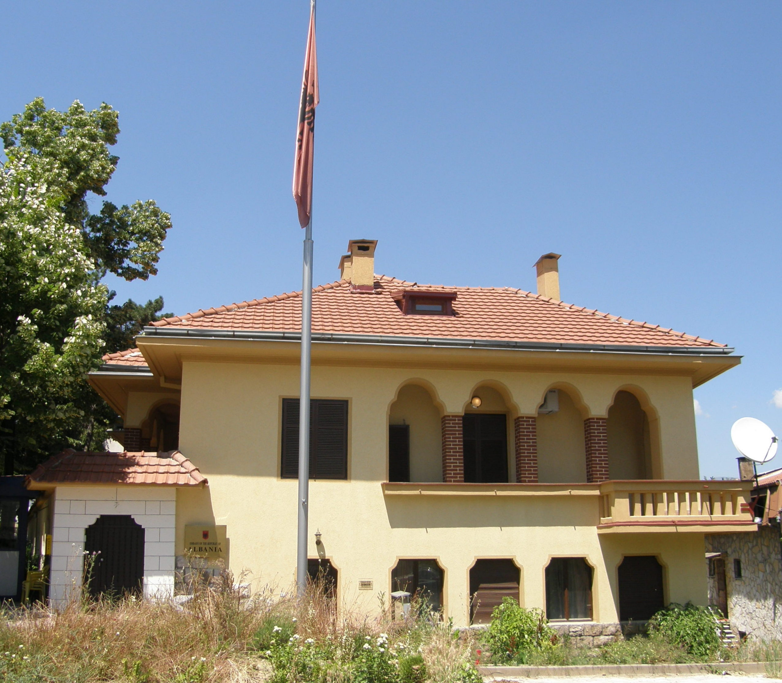 Albanian Embassy in Skopje, Macedonia